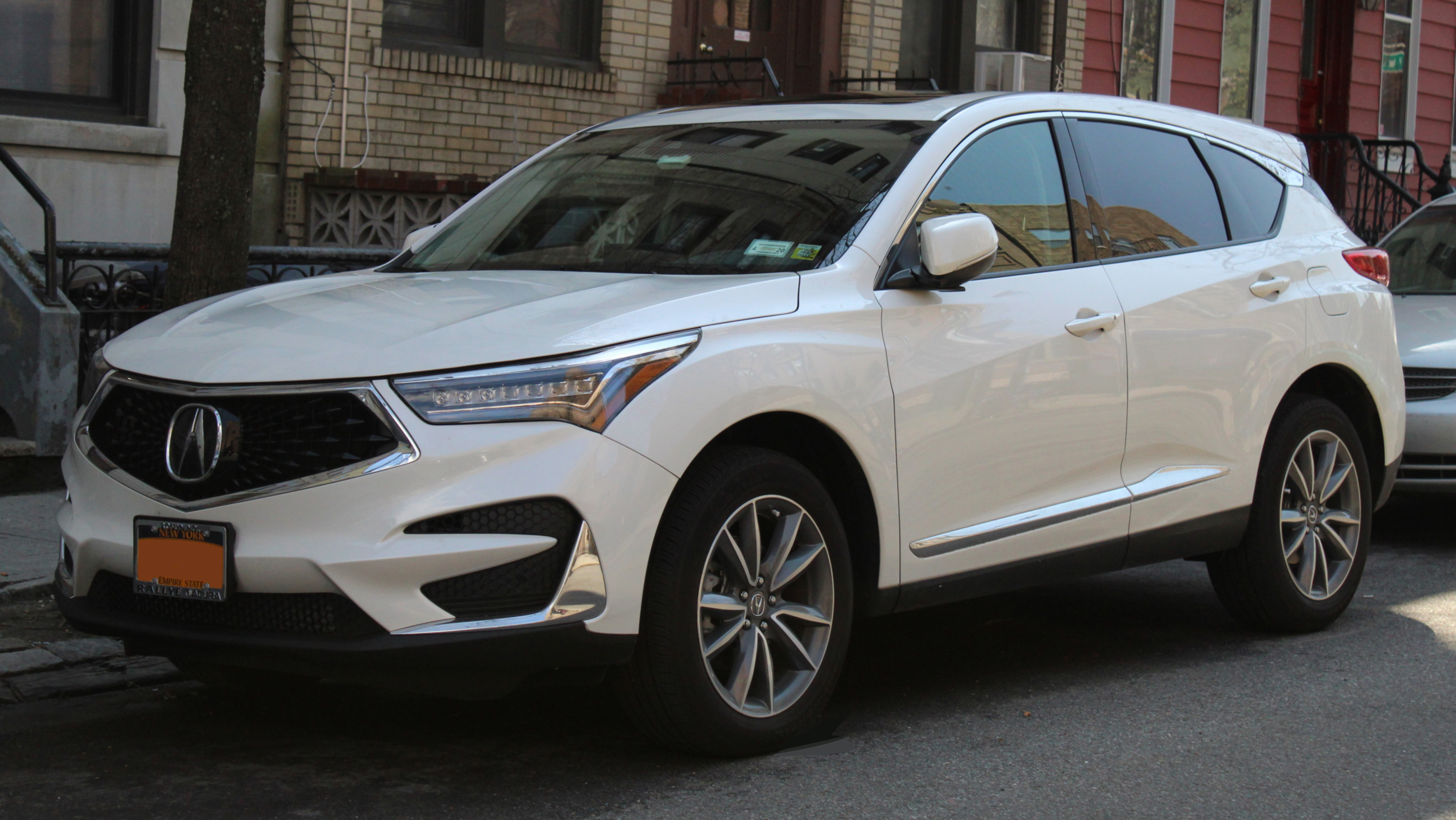 A 2019 Acura RDX photographed in Greenpoint, Brooklyn, New York, USA